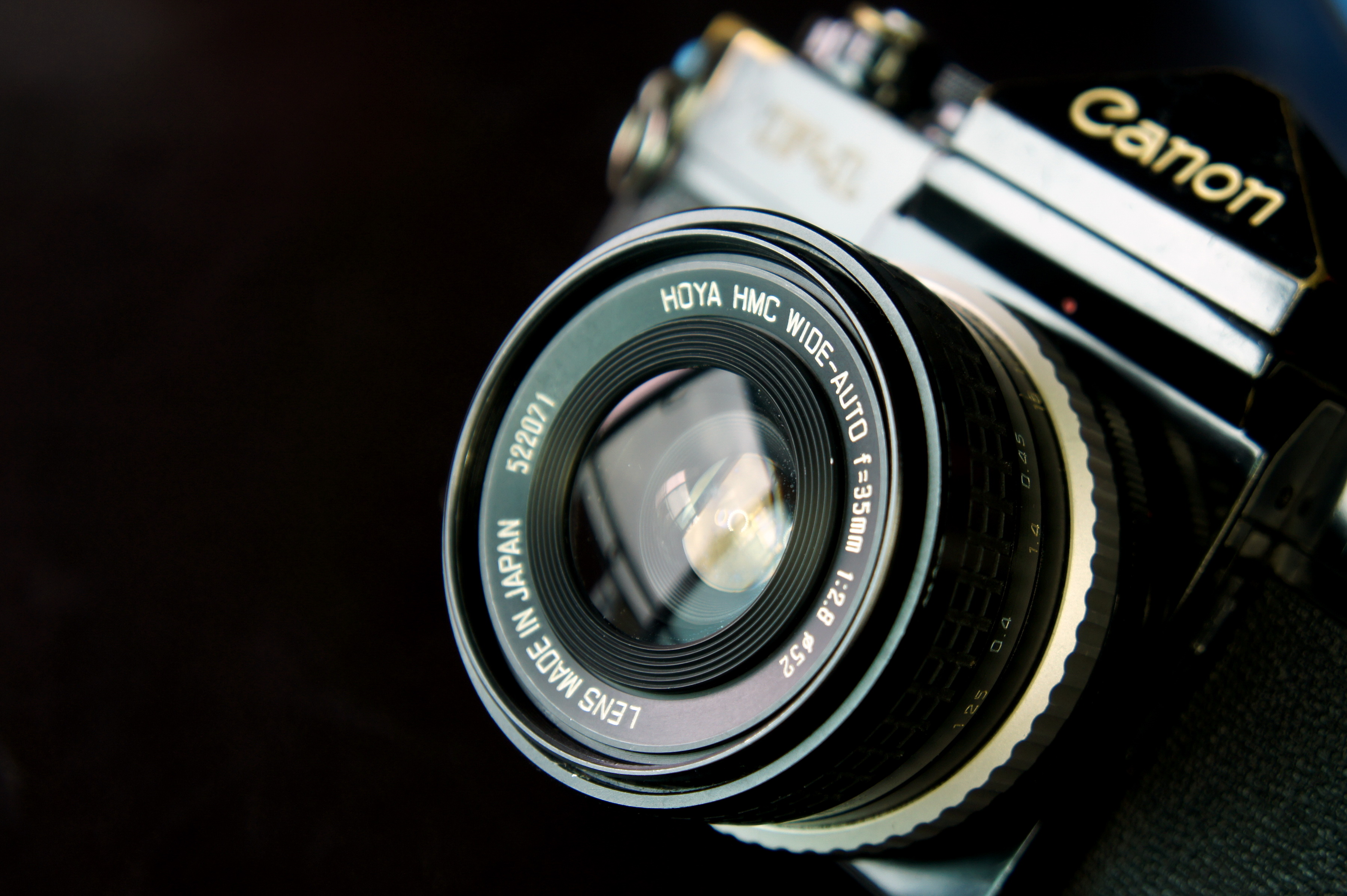 Hoya HMC 35mm (f2.8) lens on a Canon F1 body